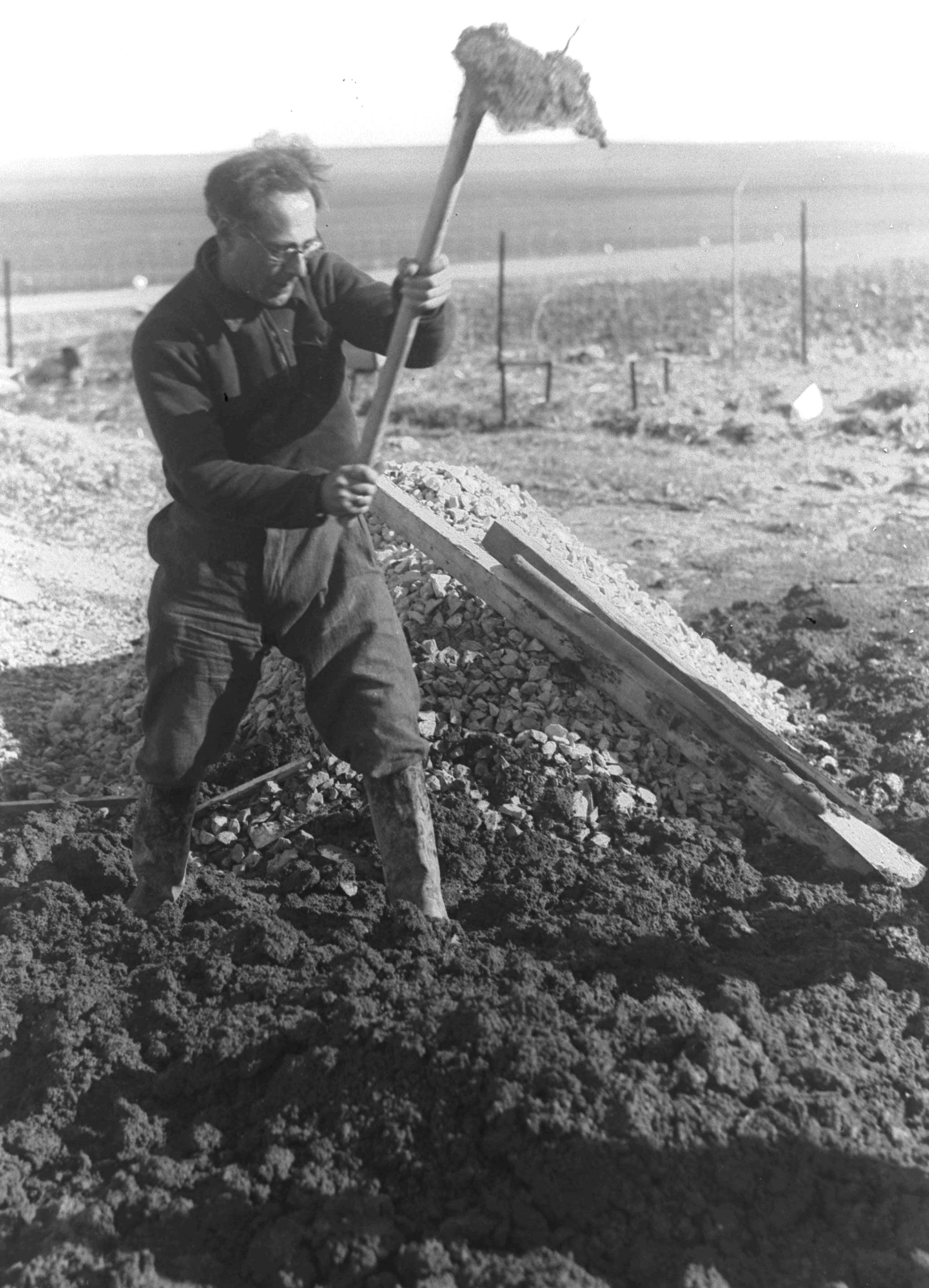 THE POET LUDWIG STRAUSS, A MEMBER OF KIBBUTZ HAZOREA, WORKING IN THE YARD OF THE KIBBUTZ.